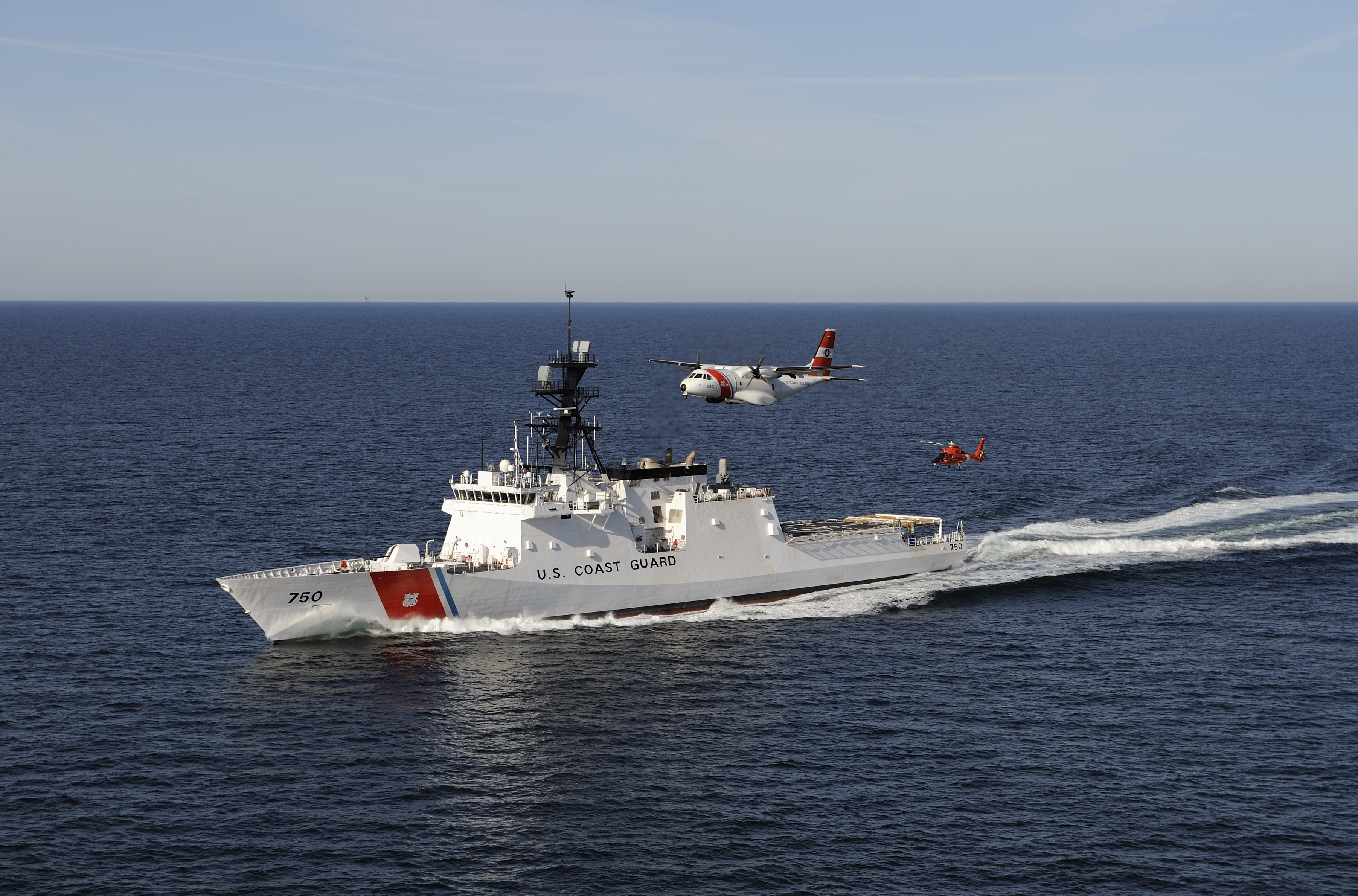 National Security Cutter, the Bertholf The U. S. Coast Guard's first national security cutter took to the sea operating in concert with the service's new maritime patrol aircraft, the Ocean Sentry HC-144A, and a newly re-engined MH-65C helicopter Monday, Feb. 11, 2008. The flagship in the Coast Guard's first new class of large cutters in 25 years, Bertholf is the Coast Guard's largest ever patrol cutter. The launch in Pascagoula, Miss., began four days of builder trials that will test the cutter's systems and performance in advance of the Coast Guard formally accepting it later this spring, and commissioning the cutter for service this summer. Bertholf will be homeported in Alameda, Calif. U.S. Coast Guard photo by PAC Tom Sperduto